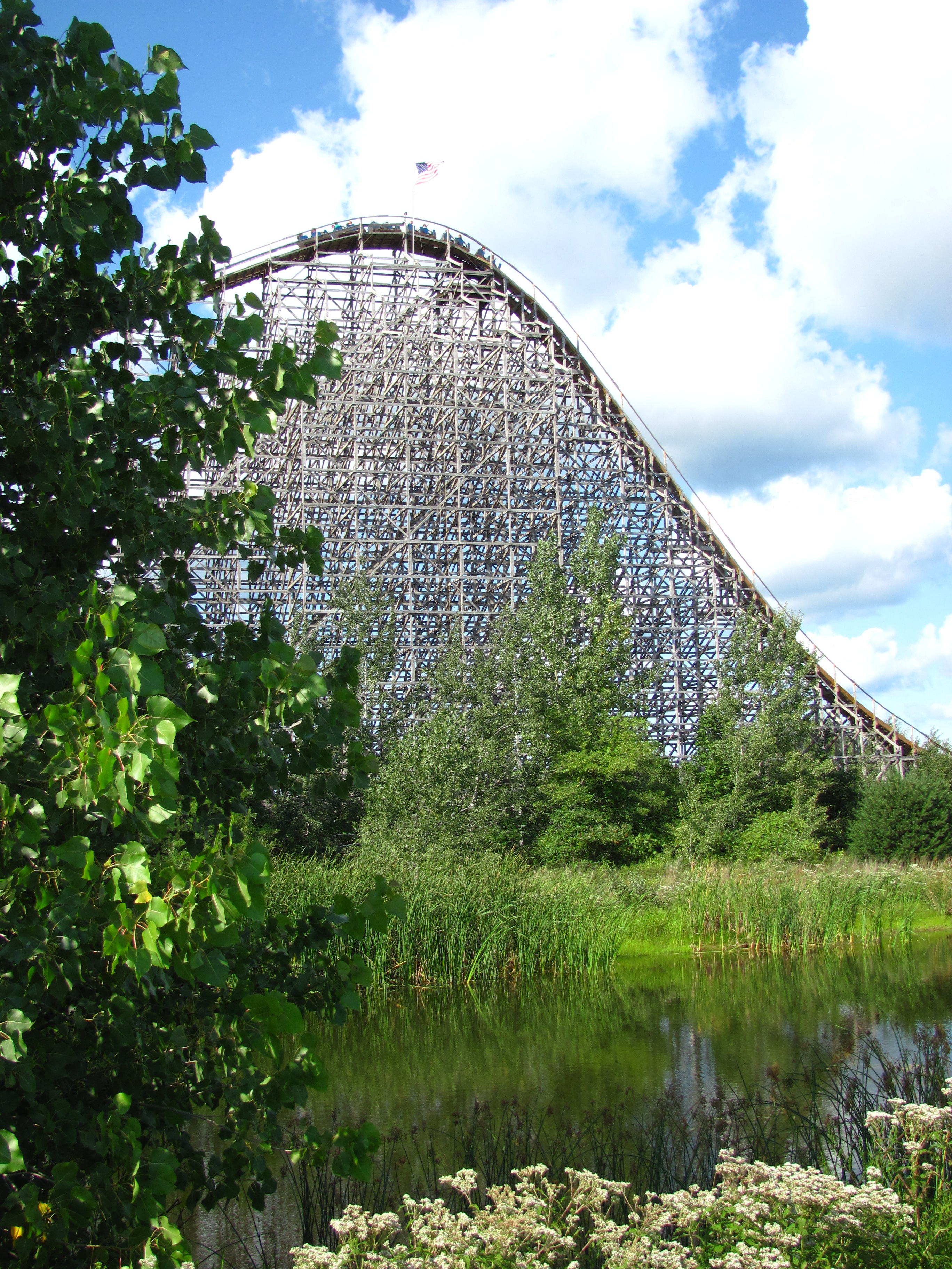 Michigan's Adventure 025